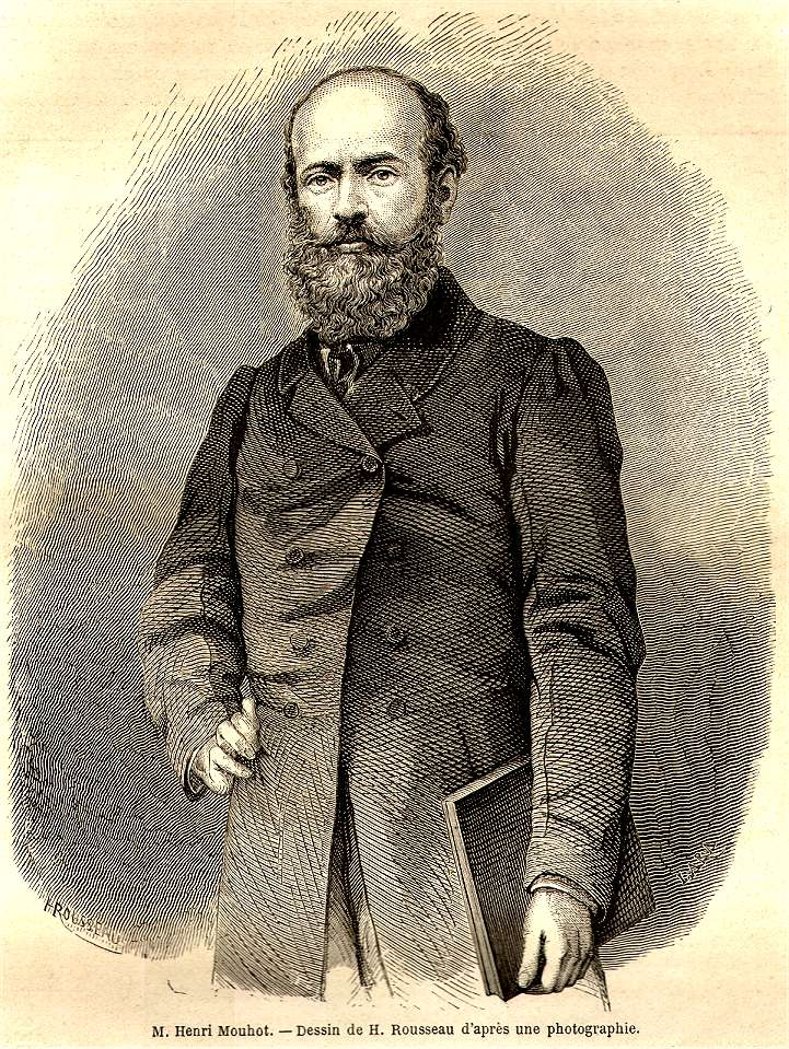 Drawing of a man that died in 1861 Henri Mouhot, man credited with "discovering" Angkor Wat